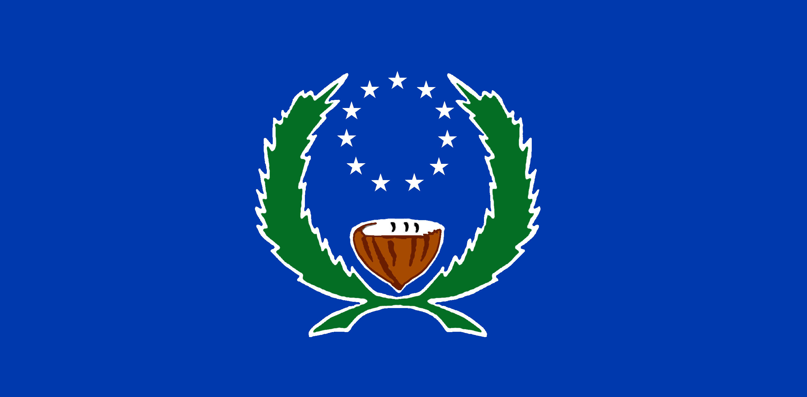 Flag of Pohnpei (state within the Federated States of Micronesia) - colours and 1:2 dimensions based partly at Flags of the World